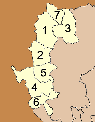 Map of the province Mae Hong Son with the districts (Amphoe) numbered. Mueang Mae Hong Son Khun Yuam Pai Mae Sariang Mae La Noi Sop Moei Pang Mapha